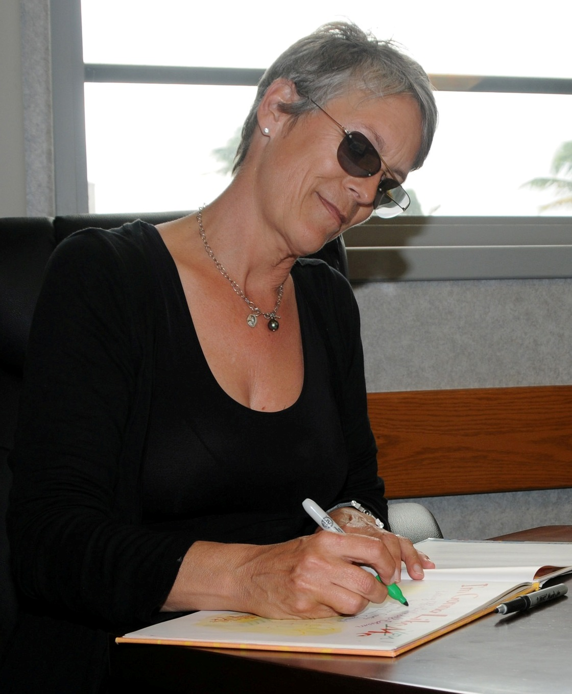 Actress Jamie Lee Curtis autographs her books for children in Building 150 at Joint Base Pearl Harbor-Hickam, Hawaii, April 1, 2010.